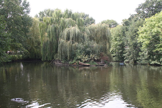 The Lake, Manor House Gardens, Lee At the western end of the lake is a small wooded island.